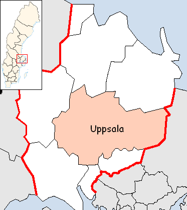 Uppsala Municipality in Uppsala County Designd by me, based on Image:Uppsala County.png